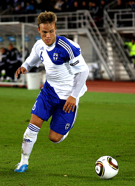 Finnish footballer Mika Väyrynen